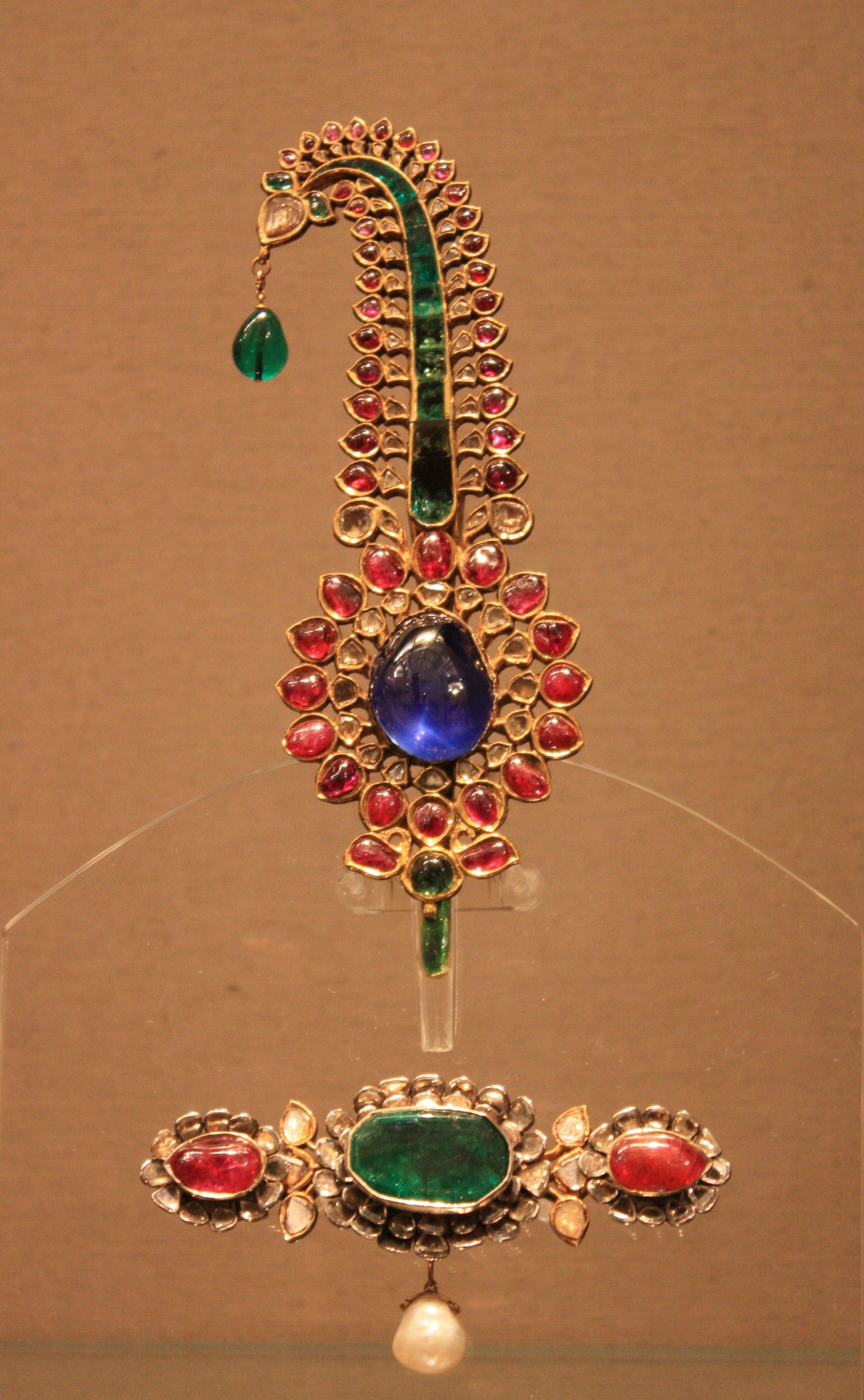 Turban jewels Enamelled gold, the upper section set with diamonds, rubies, emeralds and a sapphire, the lower with diamonds, rubies, an emerald and a pendant pearl, the back enamelled. Murshidabad c.1750 IS 3&A-1982 Wikipedia Loves Art at the Victoria and Albert Museum This photo of item # 3&A-1982 IS 3&A-1982 at the Victoria and Albert Museum was contributed under the team name "va_va_val" as part of the Wikipedia Loves Art project in February 2009. Victoria and Albert Museum The original photograph on Flickr was taken by Val_McG—please add a comment to the original Flickr page whenever a use has been made on Wikipedia or another project. Project galleries on Flickr: this institution, this team